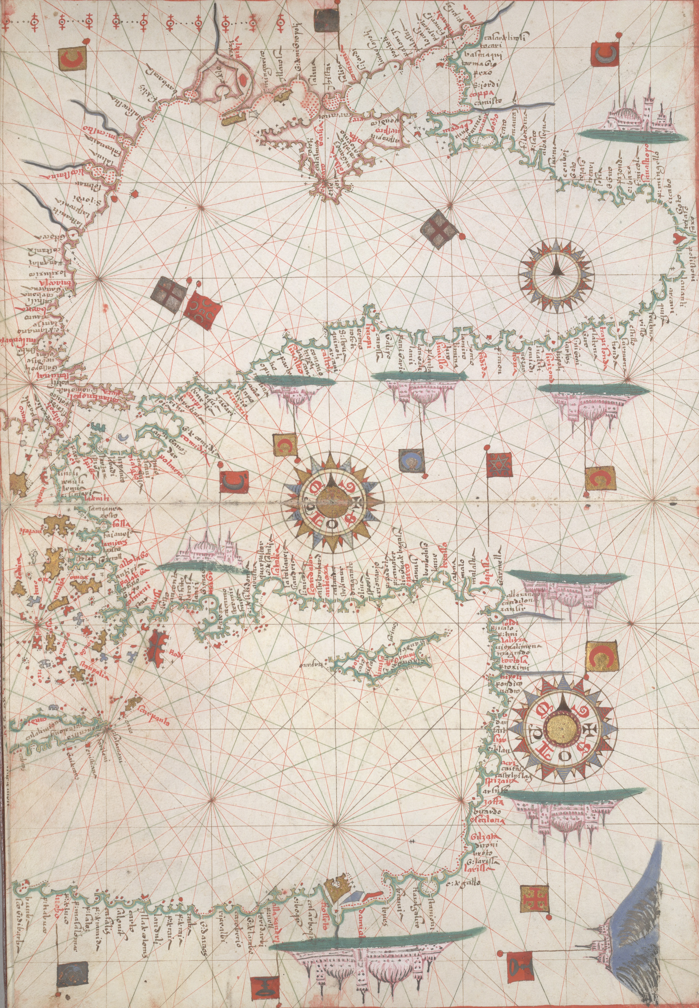 Black Sea and eastern Mediterranean. HM 33. JOAN MARTINES, PORTOLAN ATLAS. Italy, ca. 1578 Call Number: HM 33 Folio: f. 2 Description: Black Sea and eastern Mediterranean.